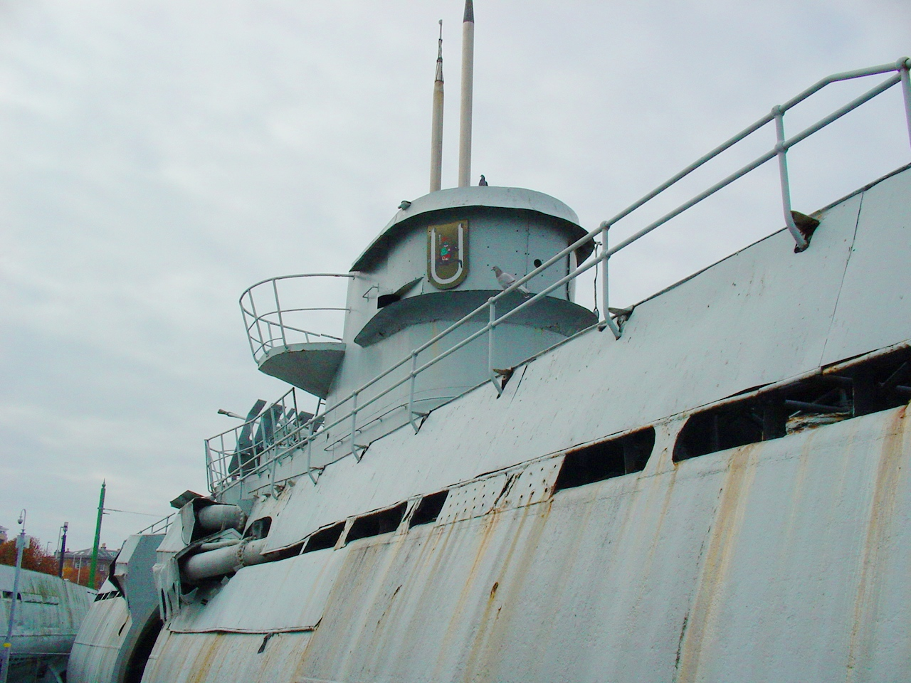 U-534 at the U-Boat story exhibition, Birkenhead.